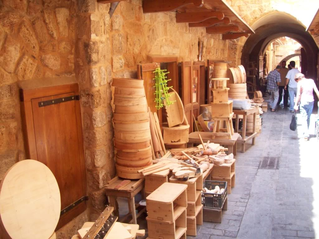 carpenters alley inside the old city